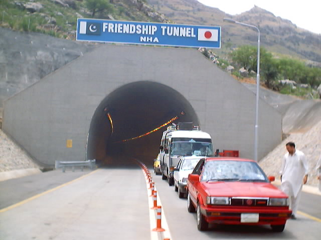 Kohat tunnel at the Kohat pass that links Peshawar with Kohat in Kohat district in Khyber-Pakhtunkhwa.